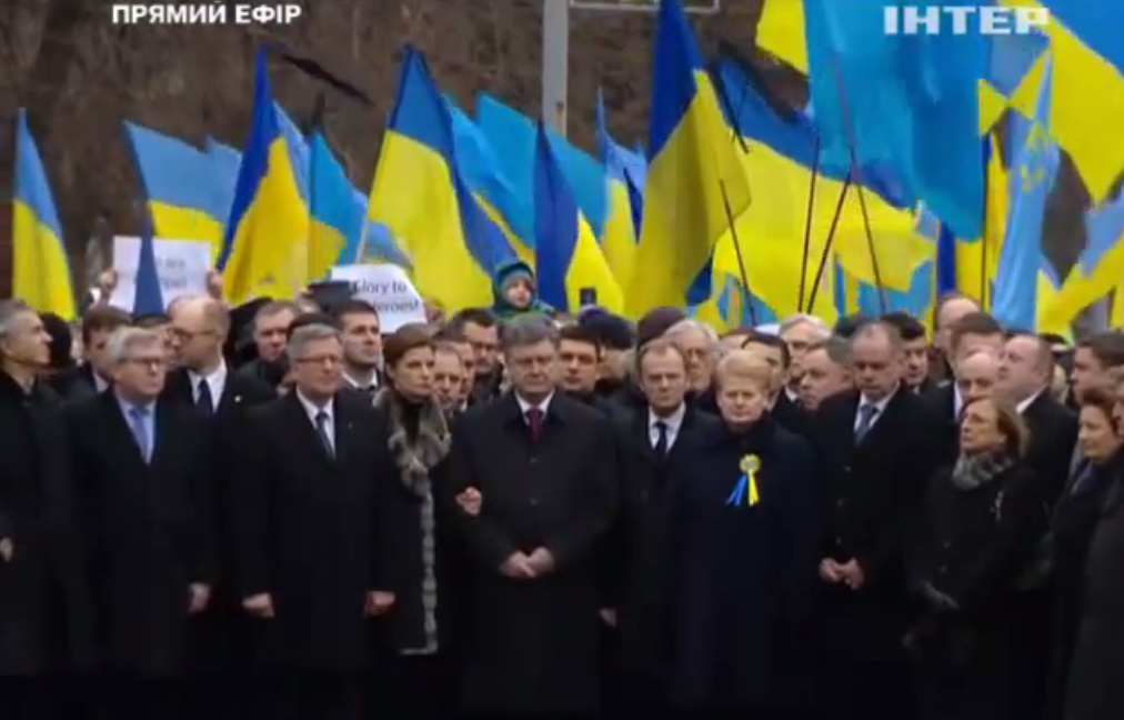 March of dignity in Kiev on February 22, 2015